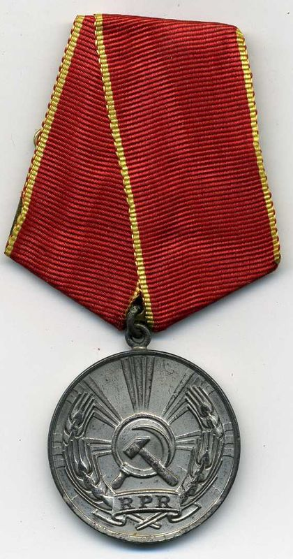 The Medal of Labor, RPR